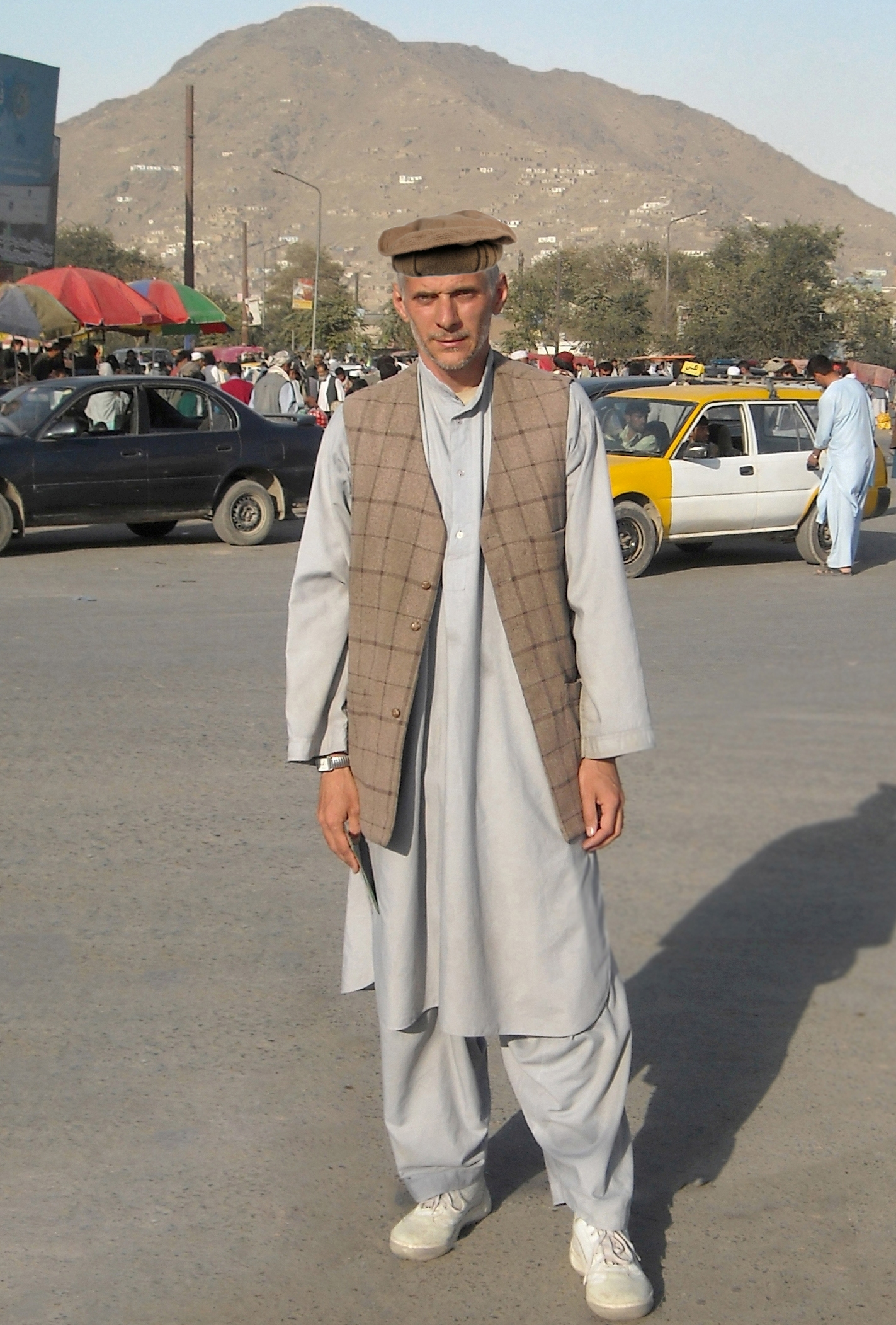 Traveler Victor Pinchuk on the outskirts of Kabul. Photo from book "Afghan prisoner" ISBN 978-5-9909912-3-1